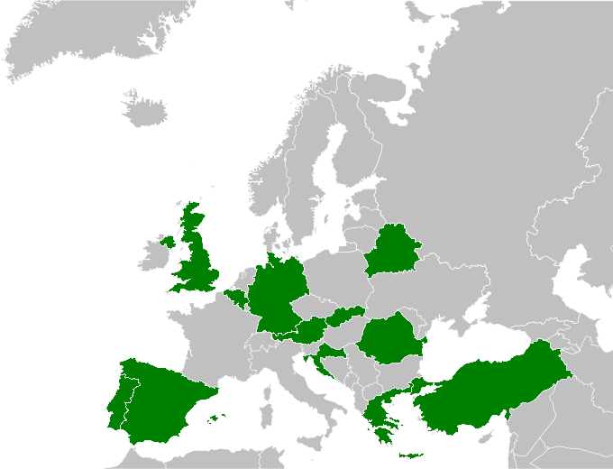 Teams which played in 2009 Men's European Volleyball League